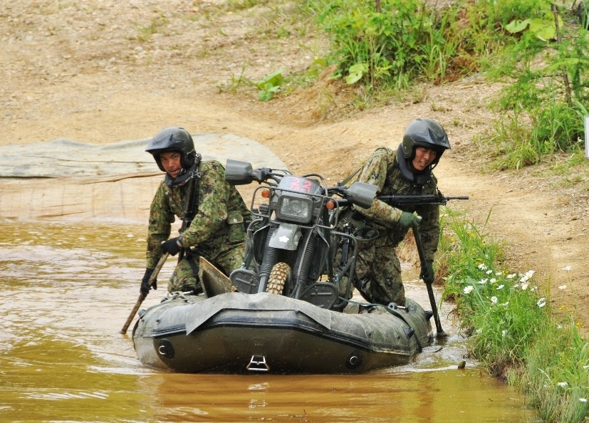 Title DSC_2152.jpg Album 教育訓練等 平成２５年度方面隊偵察部隊等戦技競技会［オートバイ］（北部方面隊）